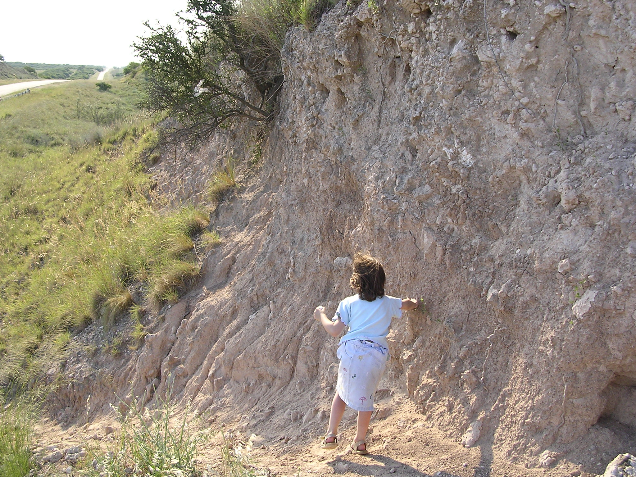 Loess deposits in northern Patagonia, Argentina.